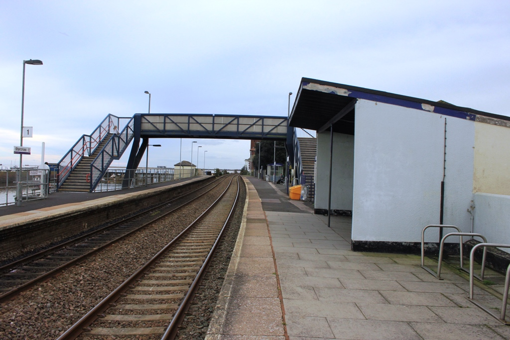 Starcross station in Devon, looking towards Plymouth.